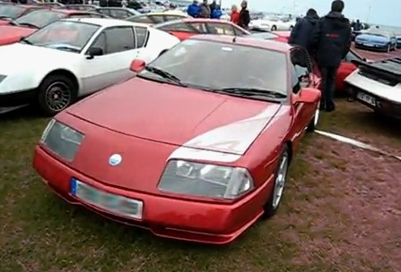 Alpine V6 Mille Miles